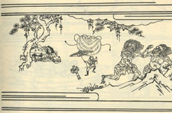 Illustration from Issun bôshi (otogi-zōshi tale) published by Shibukawa Kiyoemon